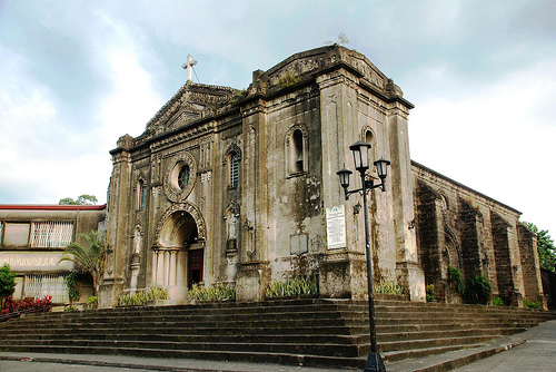 1601 Nuestra Señora de Gracia Church[1] (Church and Monastery of Guadalupe - 7440 Bernardino St Guadalupe Viejo, Makati City - Parish Priest : Fr. Andres D. Rivera, Jr. suceeding Fr. Jose L. Gonzales, OSA Parochial Vicar: Fr. Alfredo B. Jubac, OSA Attached Priests: Fr. Romanico O. Cañon, OSA Fr. Bernardo B. Coleco, OSA Fr. Noli P. Detoyato, OSA) is a baroque Roman Catholic church located in one of the oldest parishes in Makati City, Philippines. The parish church and its adjacent monastery, founded in 1601 and finished contruction in 1629 are currently administered by the Augustinian friars of the Province of Sto. Niño de Cebu. Its neighborhood include the Loyola Memorial Chapel, the Laperal compound, and the Guadalupe Minor Seminary. The church is a mixture of different architectures due in part to the fact that it had to be partially rebuilt and restored once in 1882 after an earthquake, and again in 1894 after fighting between the US and Filipinos. [2][3][4] [5]Coordinates: 14°33'57"N 121°2'35"E Vicariate of Our Lady of Guadalupe[6]Roman Catholic Archdiocese of Manila